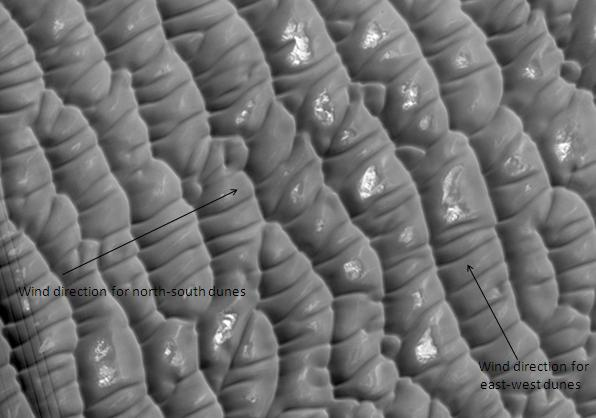 Olympia Planitia Dunes, as seen by hirise. Location is 80.2 degrees north latitude and 191.2 degrees east longitude. Image was taken by HiRISE on the Mars Reconnaissance Orbiter. Photo credit is Image NASA/JPL/University of Arizona.